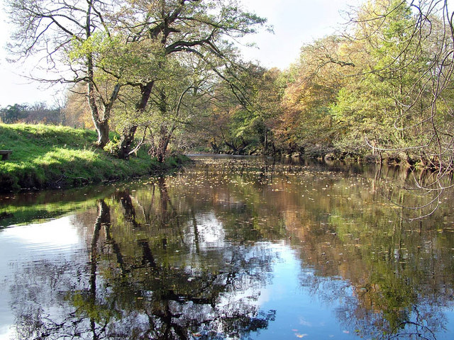 The River Derwent near Hathersage. For more information see the Wikipedia articles River Derwent (Derbyshire) and Hathersage.